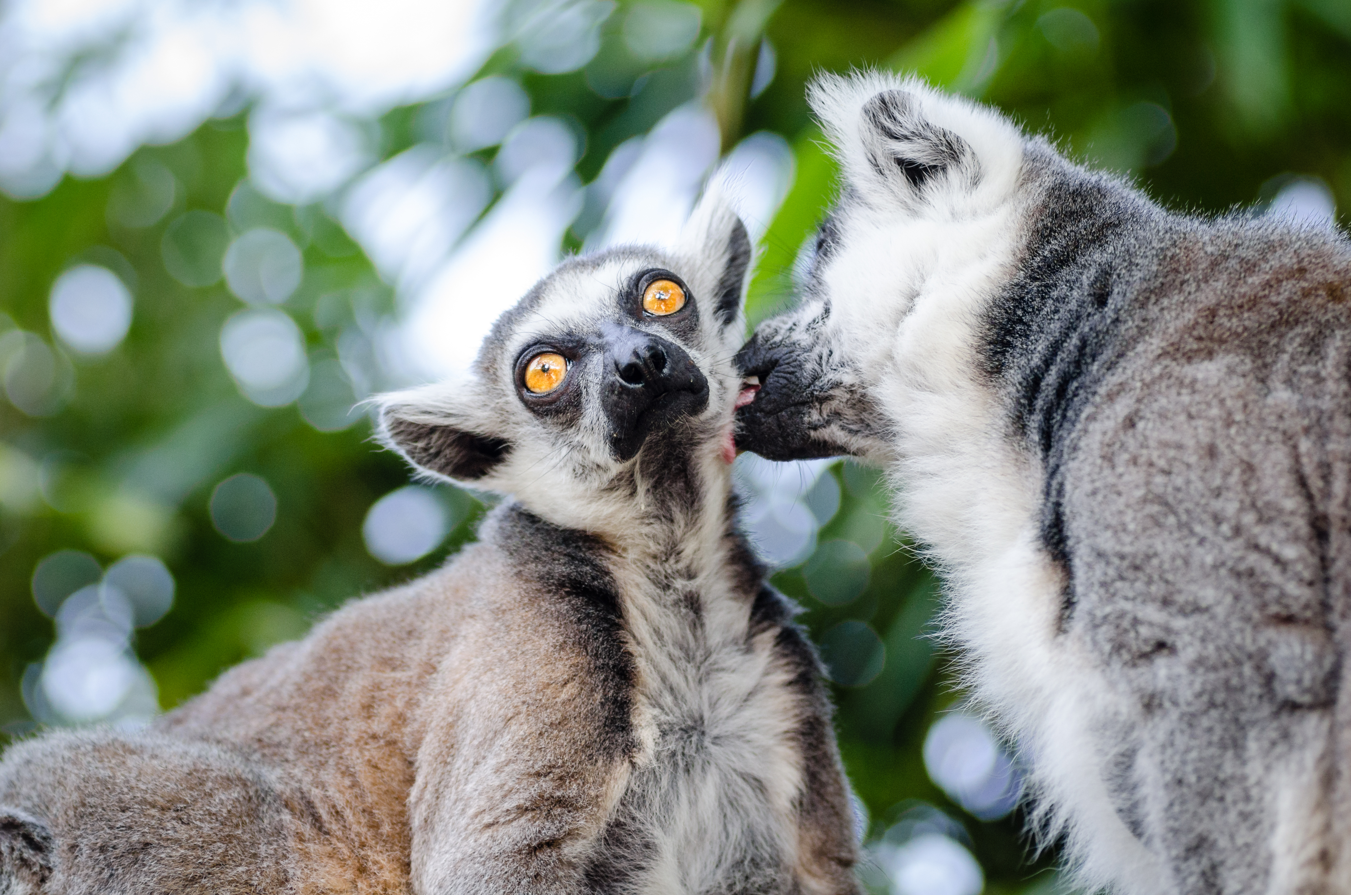 Big Momma, the leader of this gang of lemurs, grooming Grandma. Always remember to respect your elders!